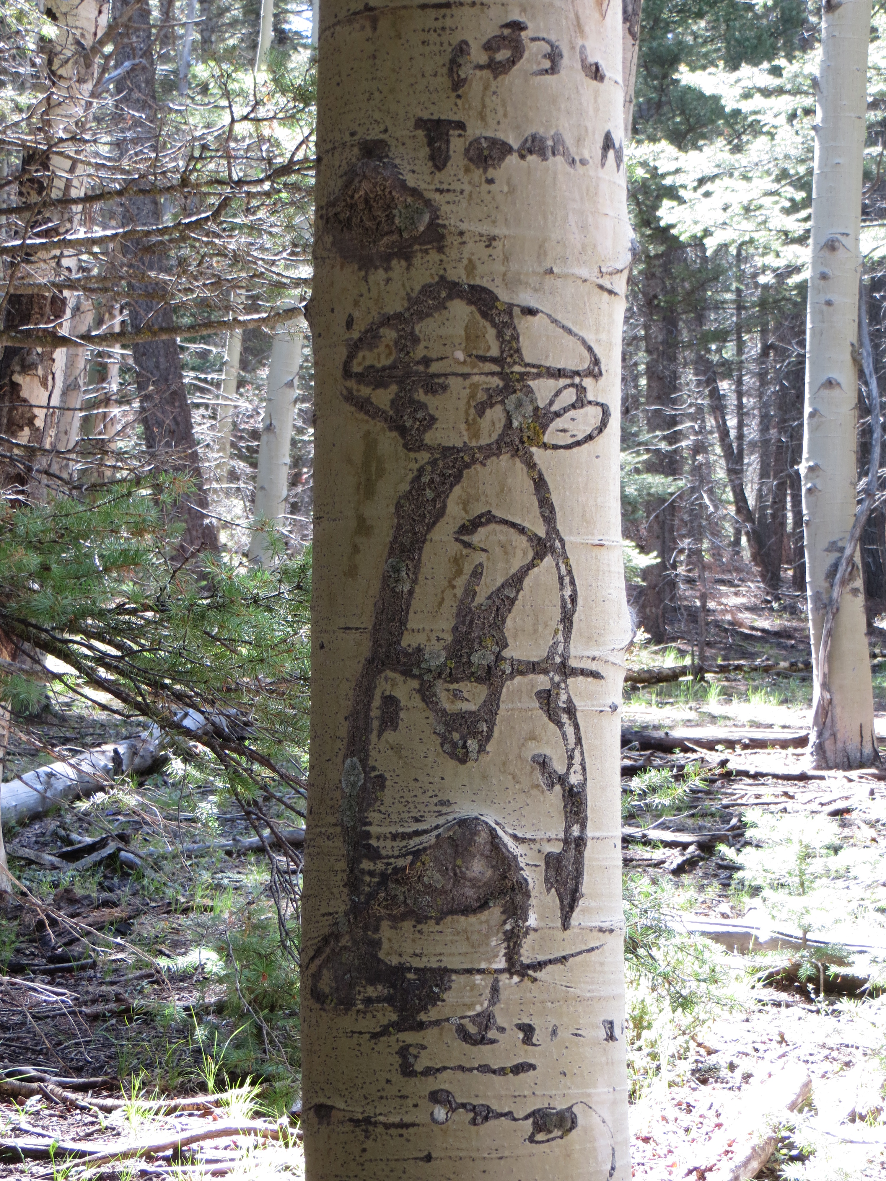 Tree carving (dendroglyph, arborglyph, aspen carving, etc.) of the cowboy actor Tom Mix (title readable in file:Tom Mix dendroglyph title.JPG), dated 1936. Río Capulín Trail, Santa Fe National Forest, Río Arriba County, New Mexico.